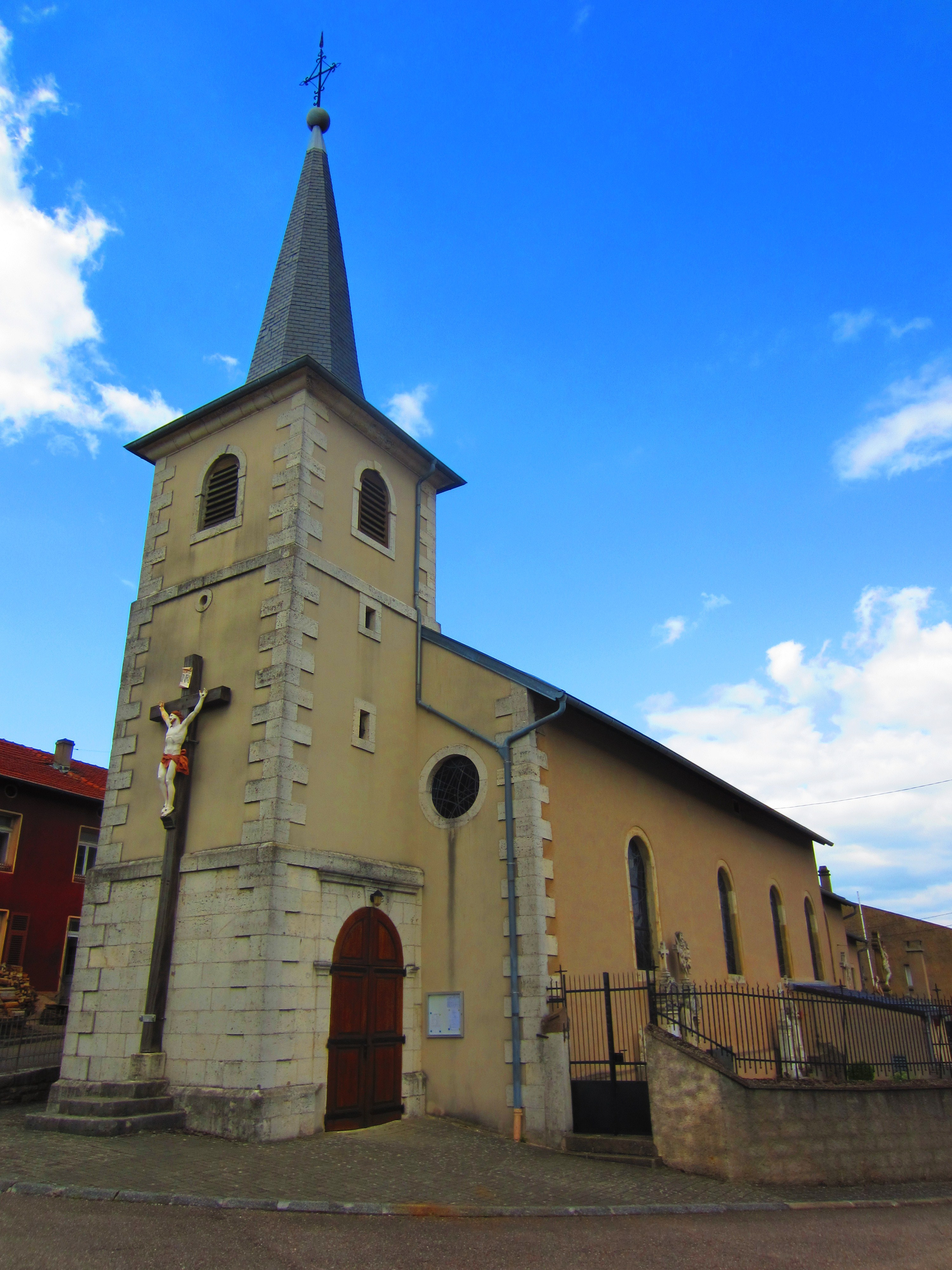 Chateau Rouge church